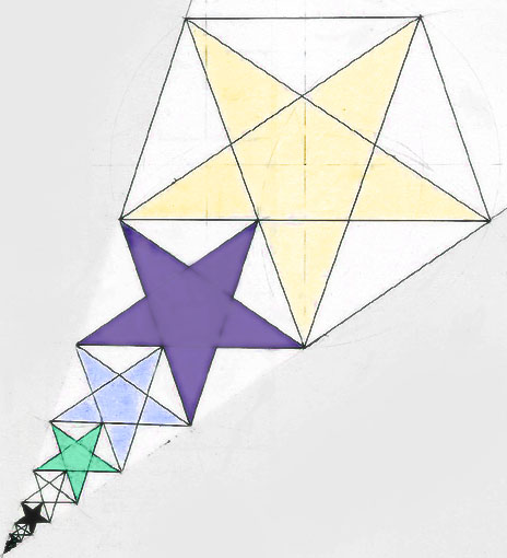 Original drawing by Susan Murray